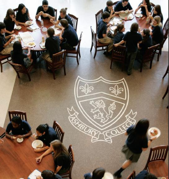 Ashbury College, Ottawa, Canada: Great Hall, seen from above